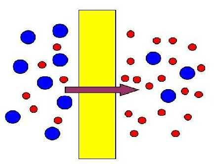 Membrane